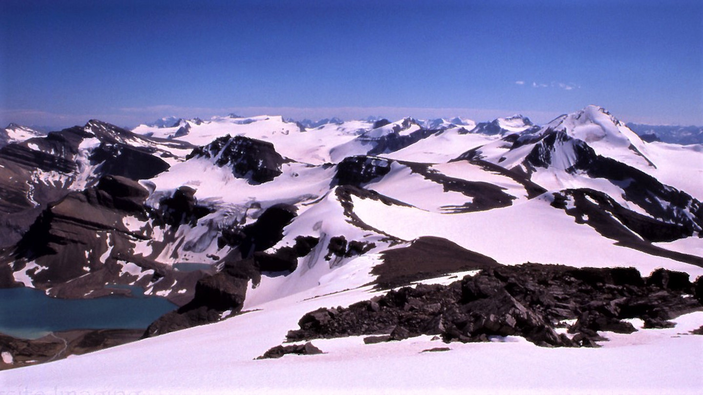 The Wapta Icefield (and Caldron Lake at lower left) as seen from the summit of Mistaya Mountain. Mounts Baker (right, on the horizon) and Habel (just right of centre, also on the horizon) are plainly visible. Mistaya is an easyish, non-technical mountain with good views both north and south, and it lies just north of the northern edge of the Wapta Icefield so one gets a view of the entire northern part of it.